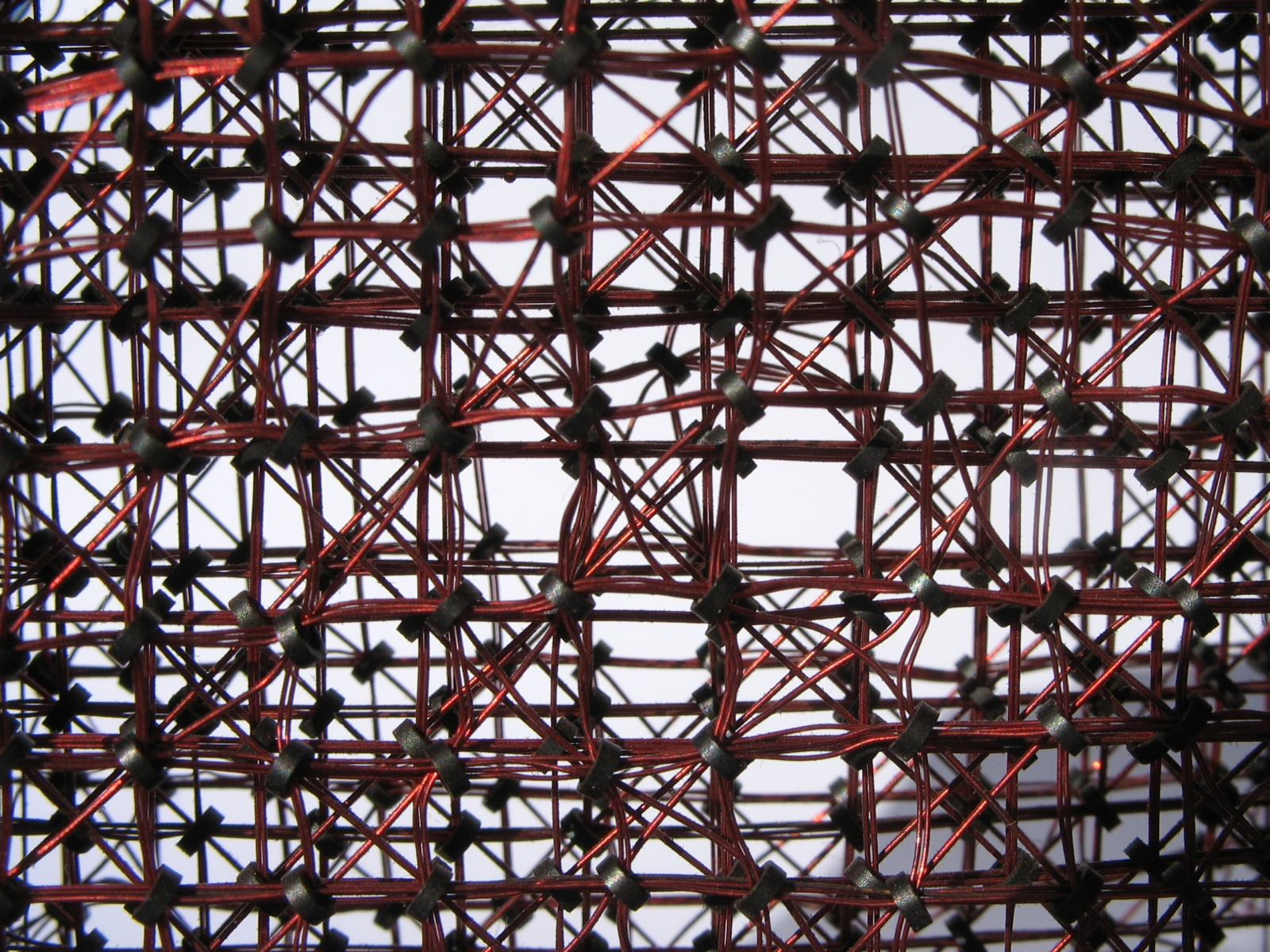 Core Memory